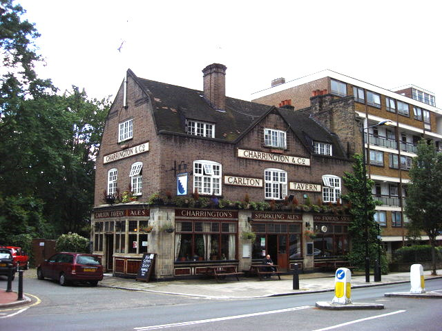 The Carlton Tavern pub, Carlton Vale, built 1920-21 for the Charrington Brewery. The building was being considered by Historic England for Grade II listing when it was unexpectedly demolished in March 2015 by the property developer CLTX Ltd to make way for a new block of flats. "Bulldozers level historic pub after being denied planning permission". The Telegraph. Archived from the original on 16 April 2015. Retrieved on 17 April 2015.